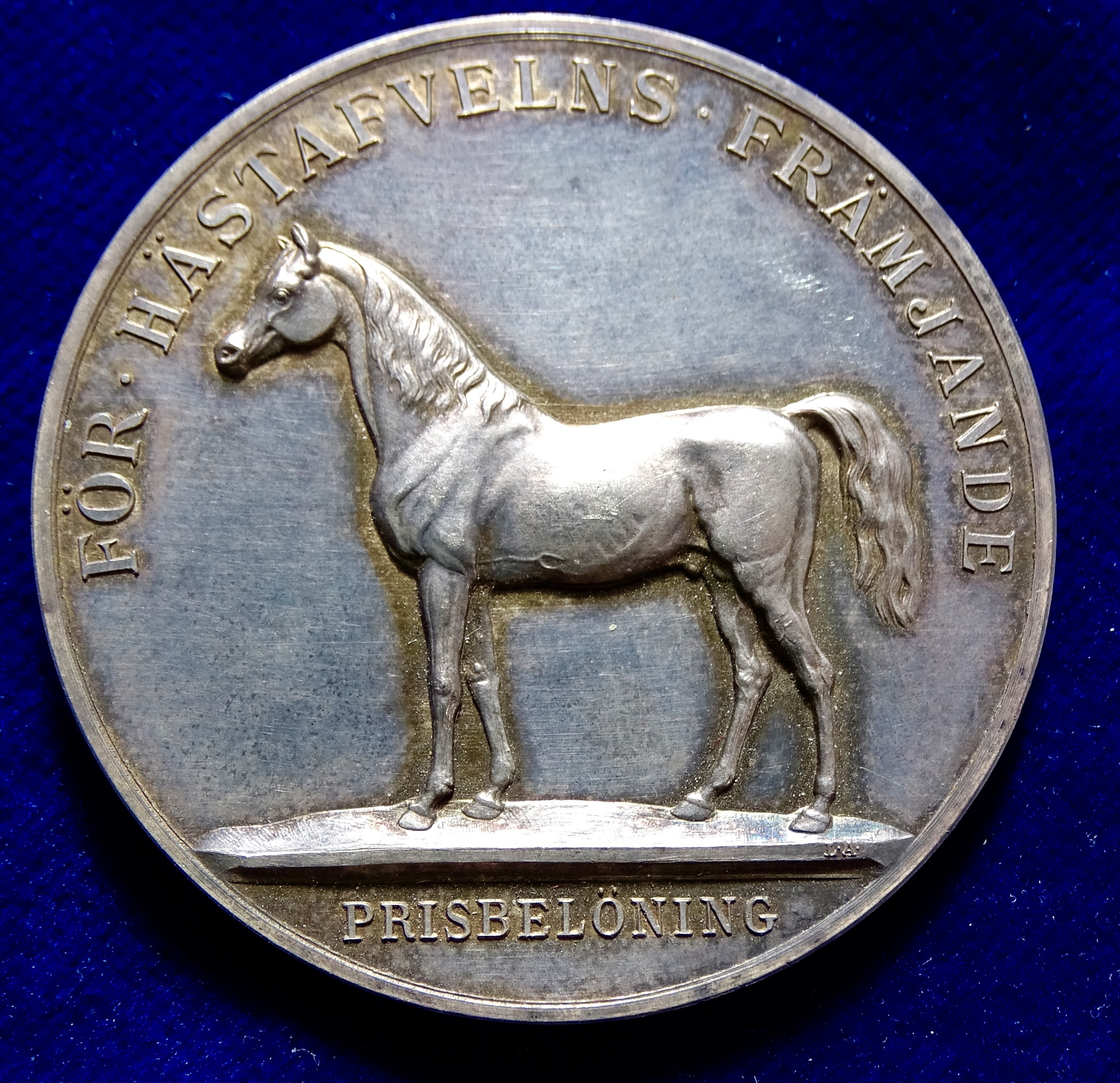 Medallion d. = 42 mm. 39.75 g Ag Gustav V, 1907 - 1950 Head l., curved above: "GUSTAV V SVERIGES GÖTES OCH VENDES KONUNG"/ Stallion standing l., in exergue: "PRISBELÖNING", curved above: "FOR HÄSTAFVELNS FRÄMJANDE". Edge: "SILVER 1922". Medallists: A. (Johan Adolf) Lindberg, 1839 Stockholm – 1916 Stockholm/ L.A. (Lea Fredrika Ahlborn) 1826 Stockholm - 1897 Condition: EXTREMELY FINE, nice old patina, no hidden faults.